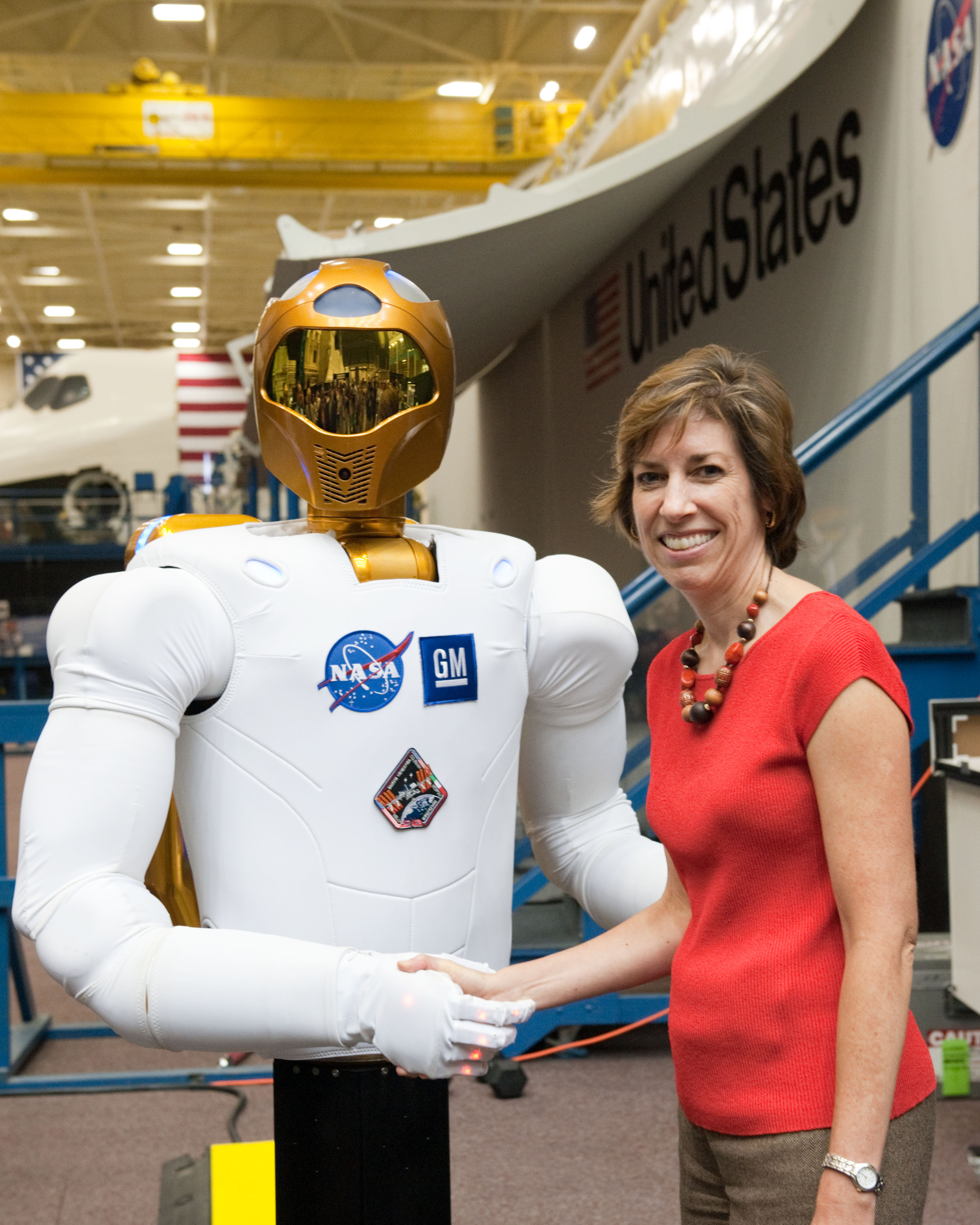 NASA's Johnson Space Center (JSC) deputy director Ellen Ochoa poses for a photo with Robonaut 2 (R2) during media day in the Space Vehicle Mock-up Facility at JSC. R2, who will hitch a ride with the STS-133 crew members, is the first humanoid robot to travel to space and the first U.S.-built robot to visit the International Space Station. R2 will stay on the space station indefinitely to allow engineers on the ground to learn more about how humanoid robots fare in microgravity.